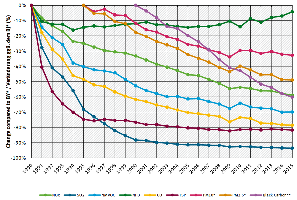 Air Pollutants - Emission Trends * Base Year (BY) 1990, 1995 for PM10/PM2.5, ** Black Carbon emissions from 2000. NOx = nitrogen oxides; SO2 = sulphur dioxide; NMVOC = non methane volatile organic compounds; NH3 = ammonia; CO = carbon monoxide; TSP = total suspended particles; PM10, PM2.5 = fine particles; Black Carbon = Carbon Black ≤ 2.5 micron